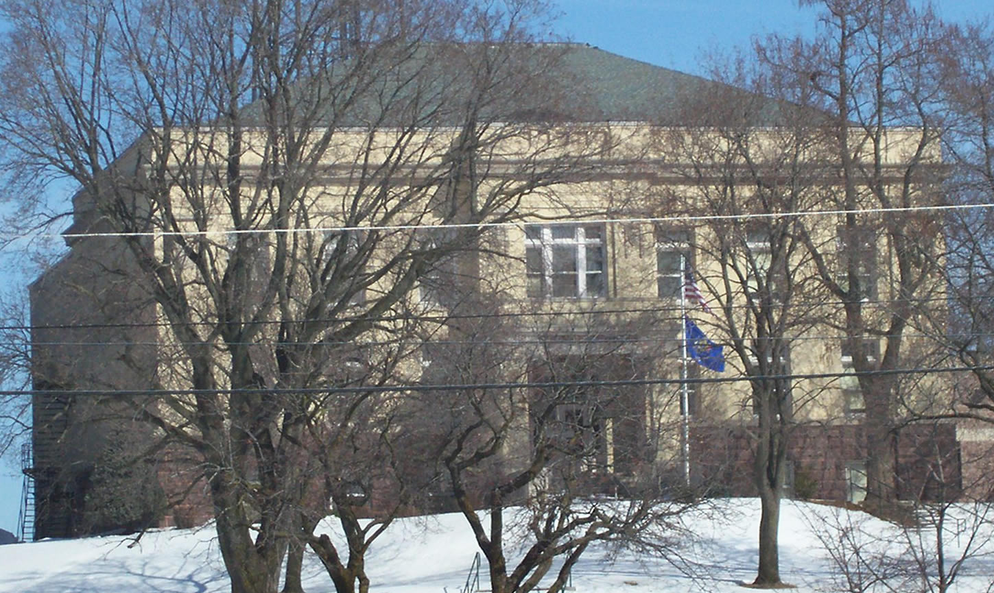 The courthouse for Marquette County, Wisconsin, USA, located in Montello.